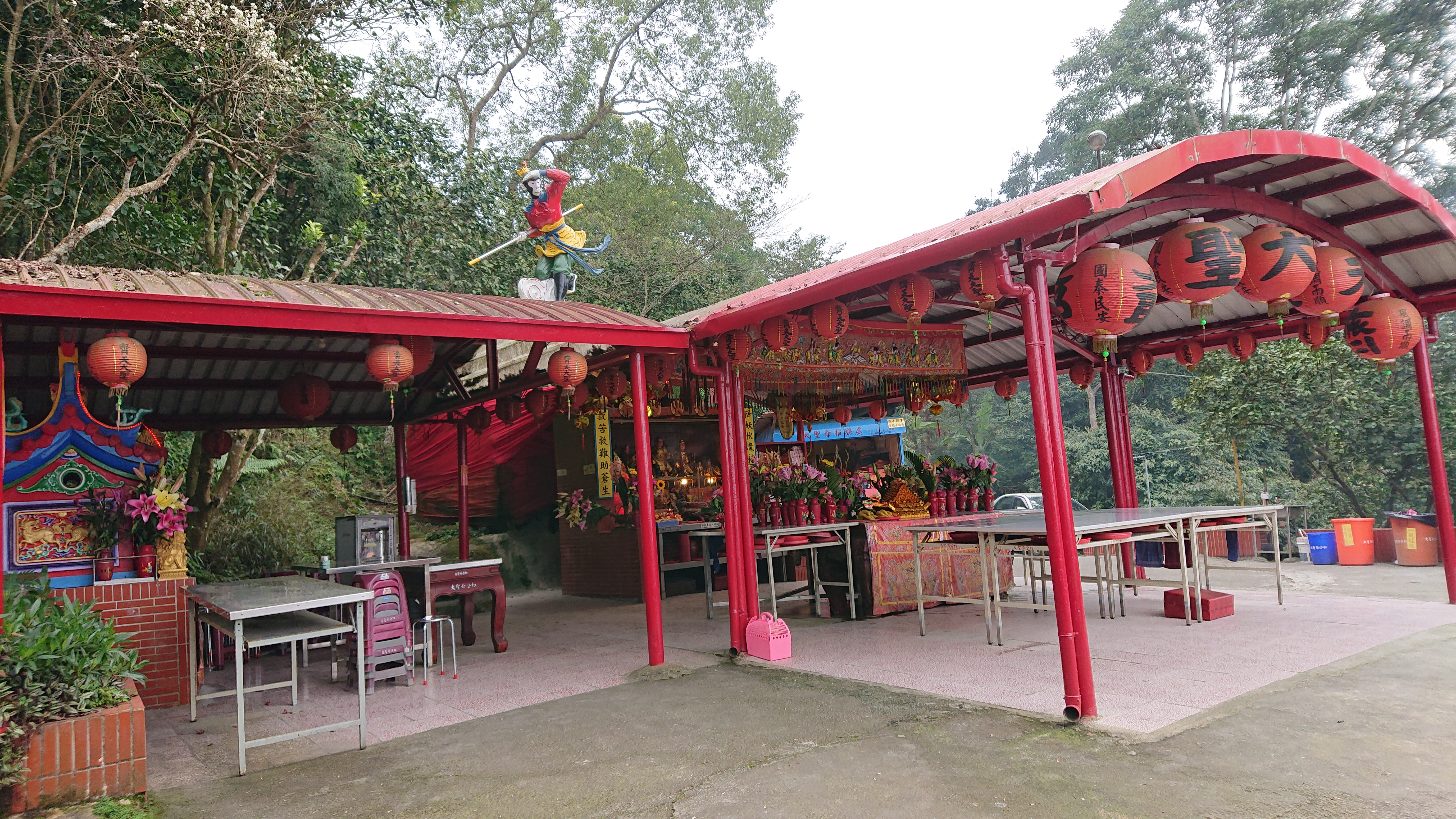 The Temple of Sun-Wukong in Hsinchu county.